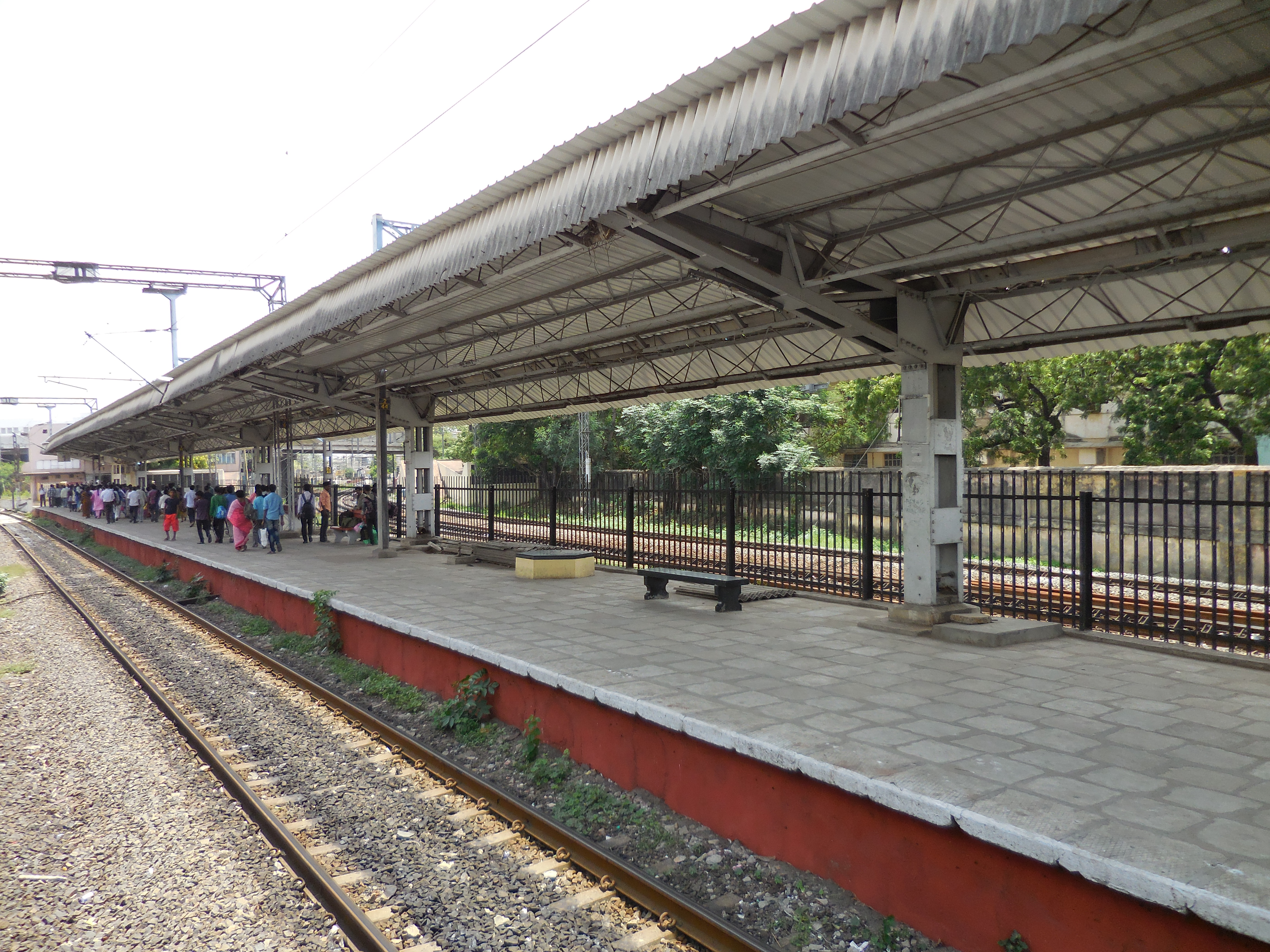 Western view of Chennai Park Town MRTS railway station, taken on 15 July 2014, afternoon.